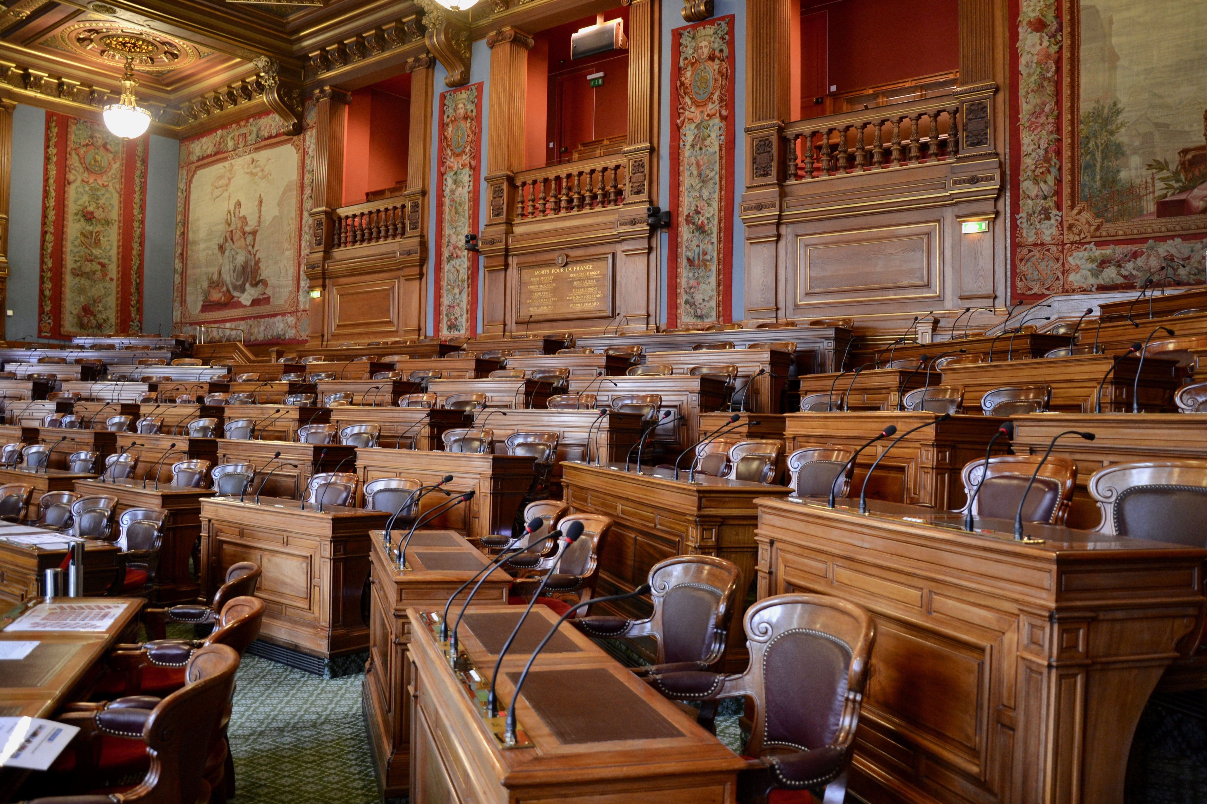 The Chamber of the Paris Council in the Paris Town Hall during the European Heritage Days 2010.